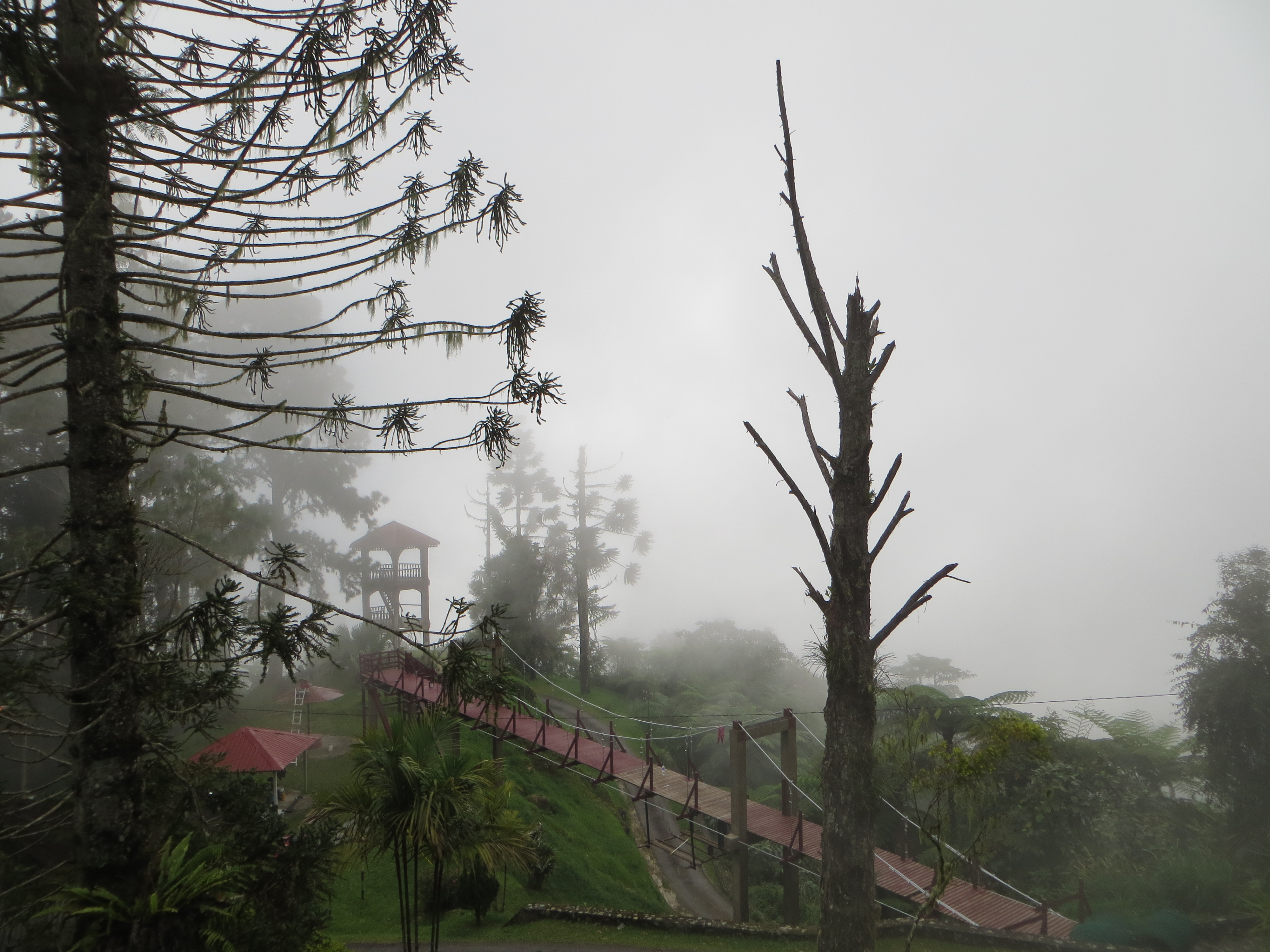 Bridge and tower at Maxwell Hill